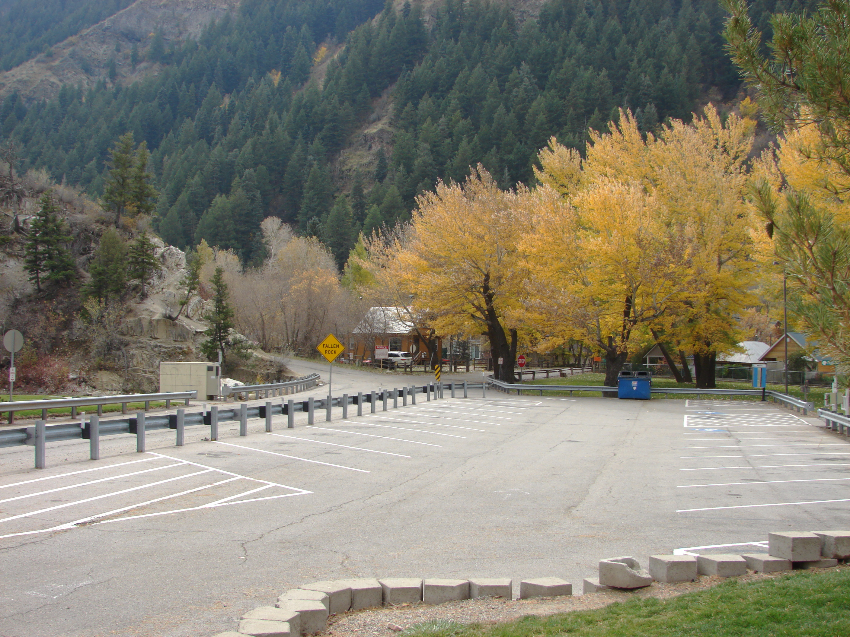 Looking south across the west parking lot for Vivian Park (a park located just off US-189 In Vivian Park, Utah), October 2015. (The road, which is part of the Great Western Trail, continues south through Vivian Park along the South Fork Provo River.)